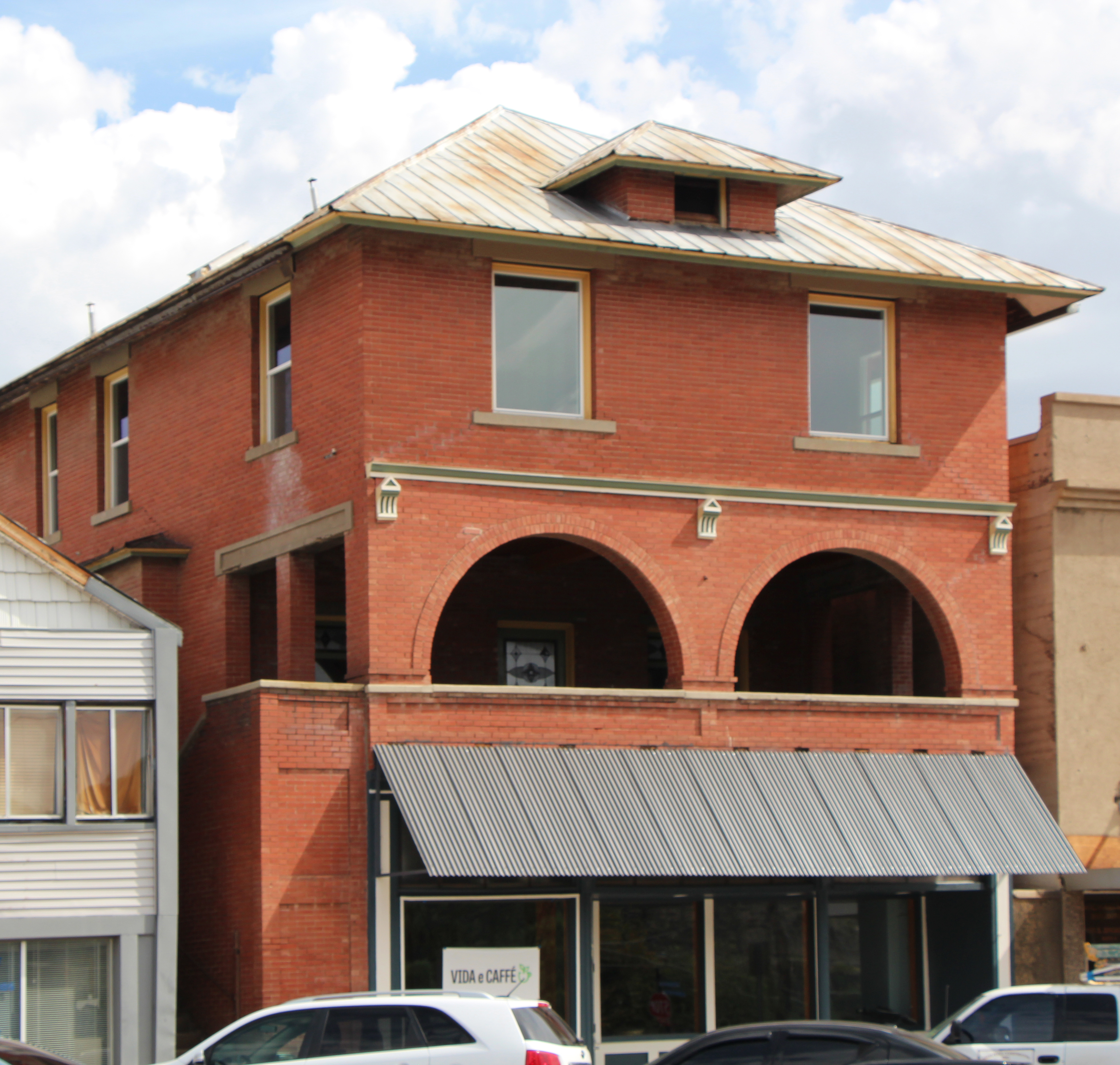 Van Wagenen/Fisk Building, 147 Broad Street, Globe, AZ